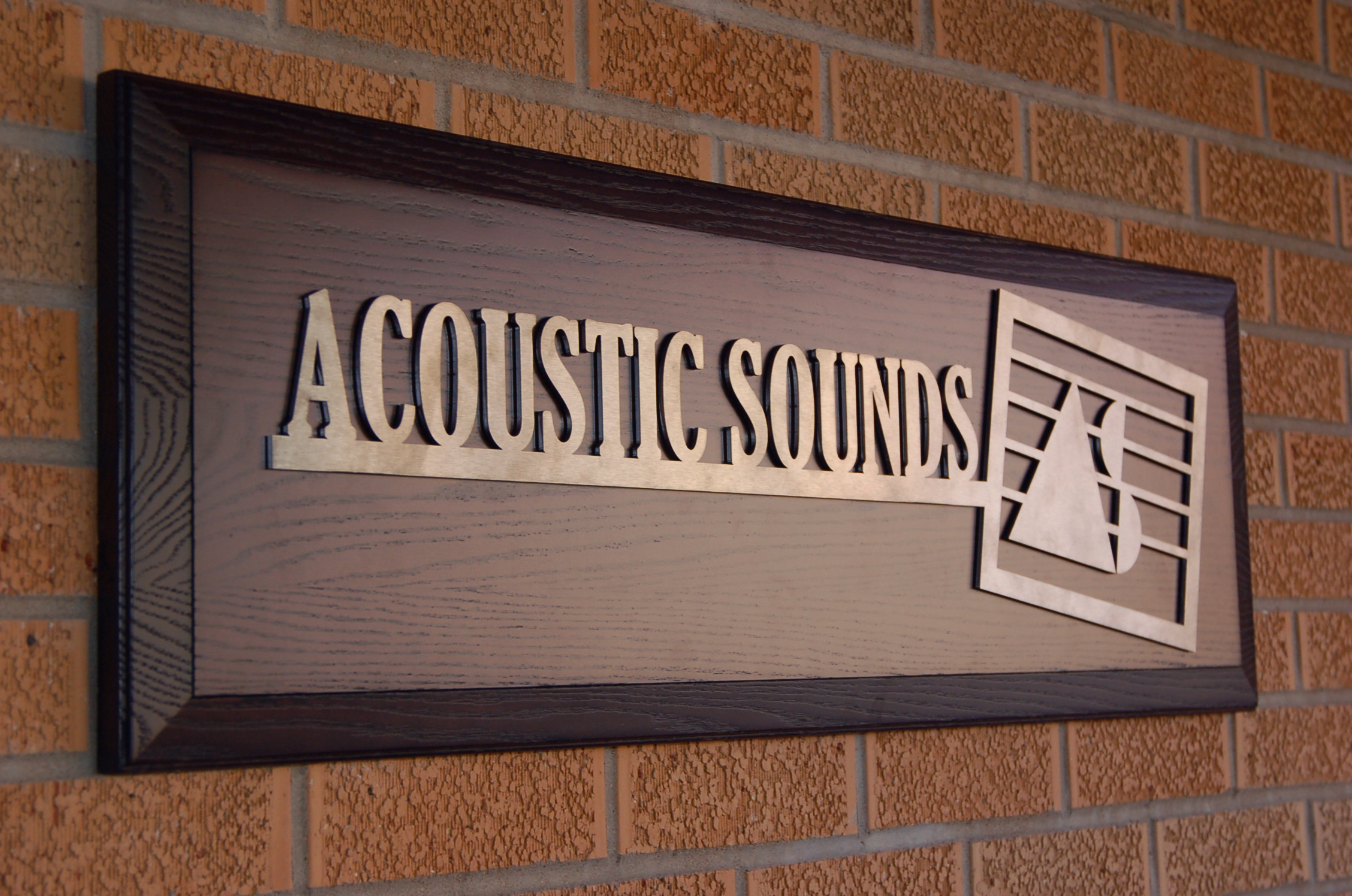 The lobby/foyer of Acoustic Sounds, Inc., in Salina, Kansas.